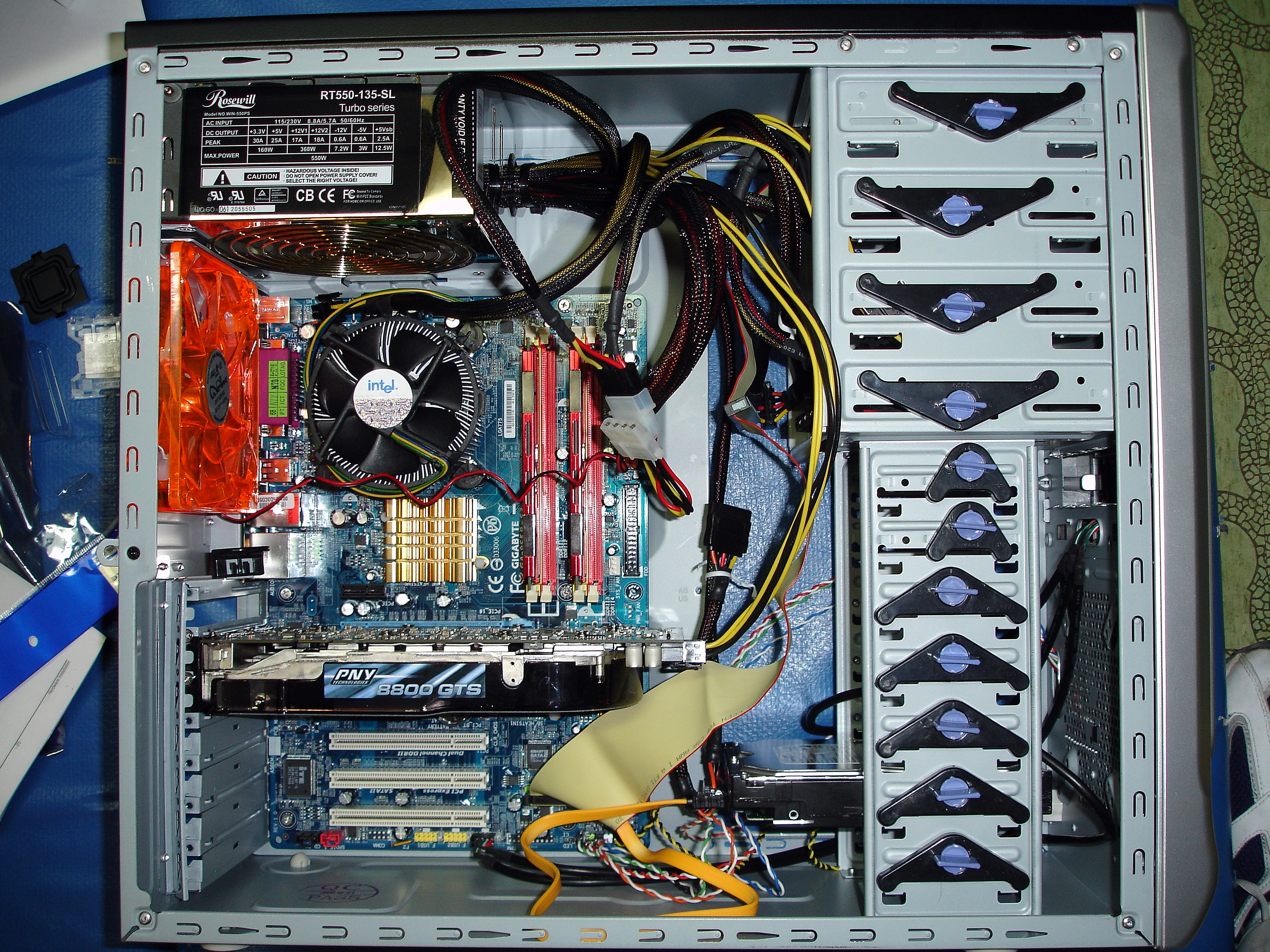 A typical "home-built" desktop PC. Intel Core 2 Duo E6600 2GB DDR3 RAM GeForce 8800 GTS